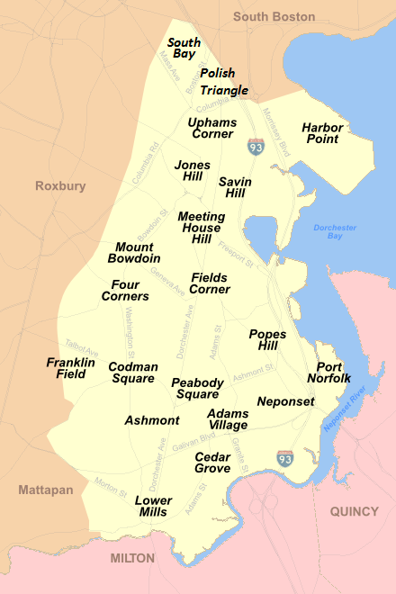 This is an version based on user Sswonk's upload, adding new neighborhood South Bay in North Dorchester and Polish Triangle (which extends from Dorchester across Andrew Station into South Boston).